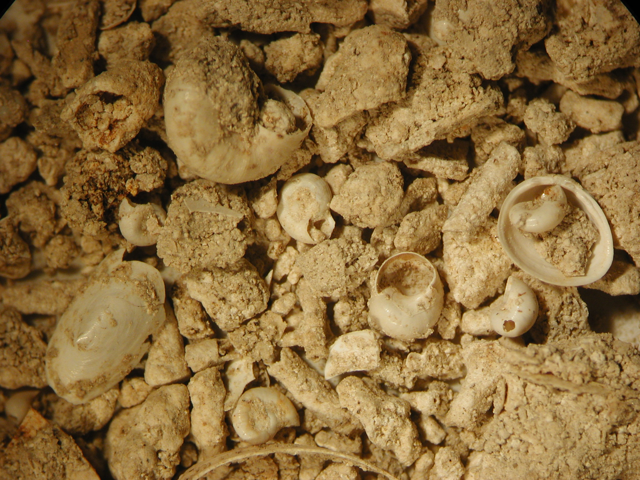 Sample of freshwater calcareous tufa from Kanne in the Valley of the Jeker, south of Maastricht, Netherlands, Holocene age; amorphous calcium carbonate, incrustrated Characeae stems, freshwater shells of the species Valvata piscinalis, Valvata cristata, Bithynia tentaculata, Acroloxus lacustris, Gyraulus albus, Planorbis carinatus, Physa fontinalis, and Pisidium subtruncatum